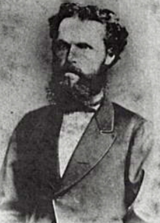 John Sproule, builder and Mayor of Canterbury and Hurstville Councils circa 1880. He owned Rostrov in Penshurst NSW which is now St Joseph's Convent